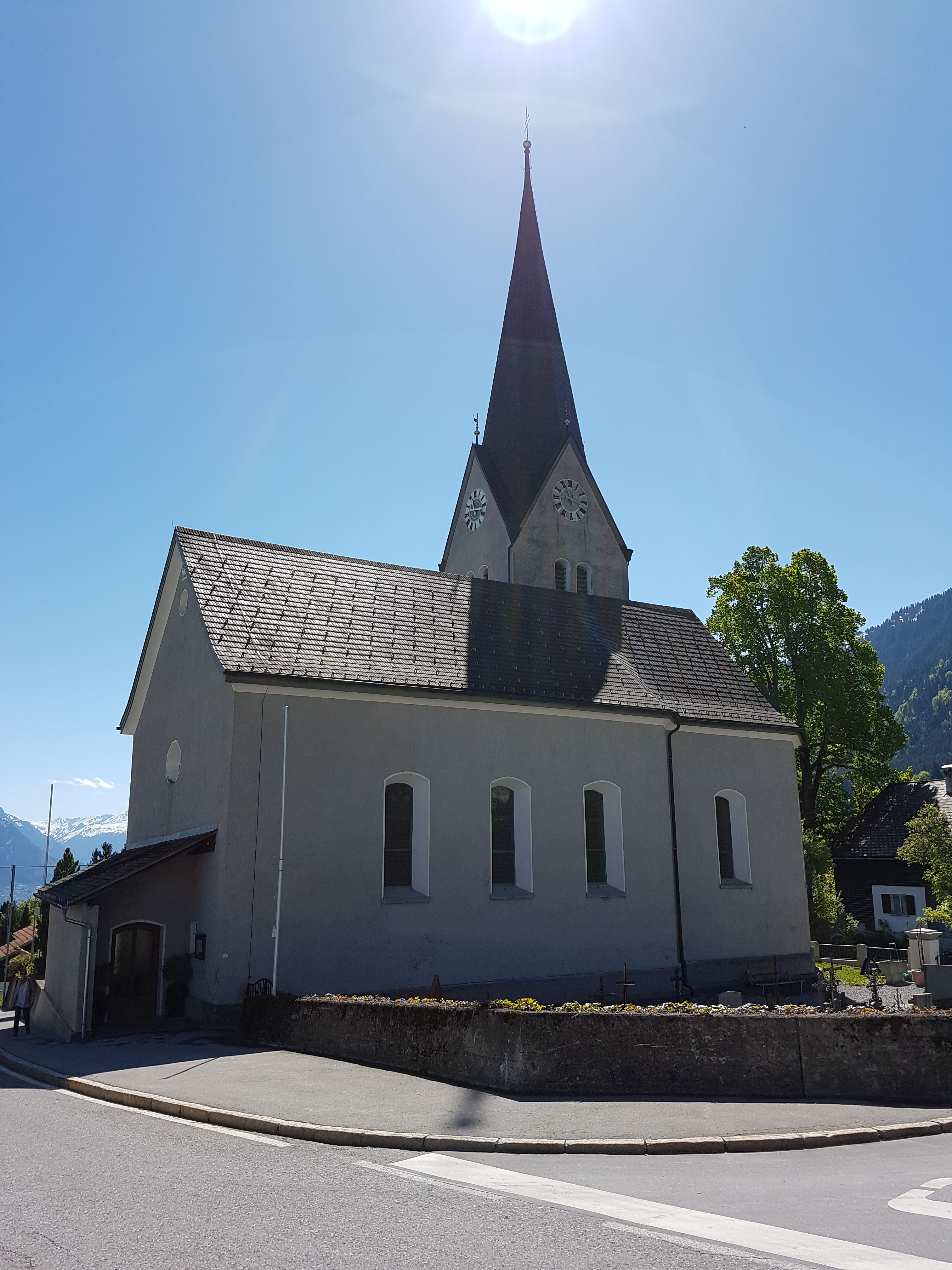 Church Our Lady of the Visitation in the hamlet of Gurtis in the market town of Nenzing in Vorarlberg, Austria.